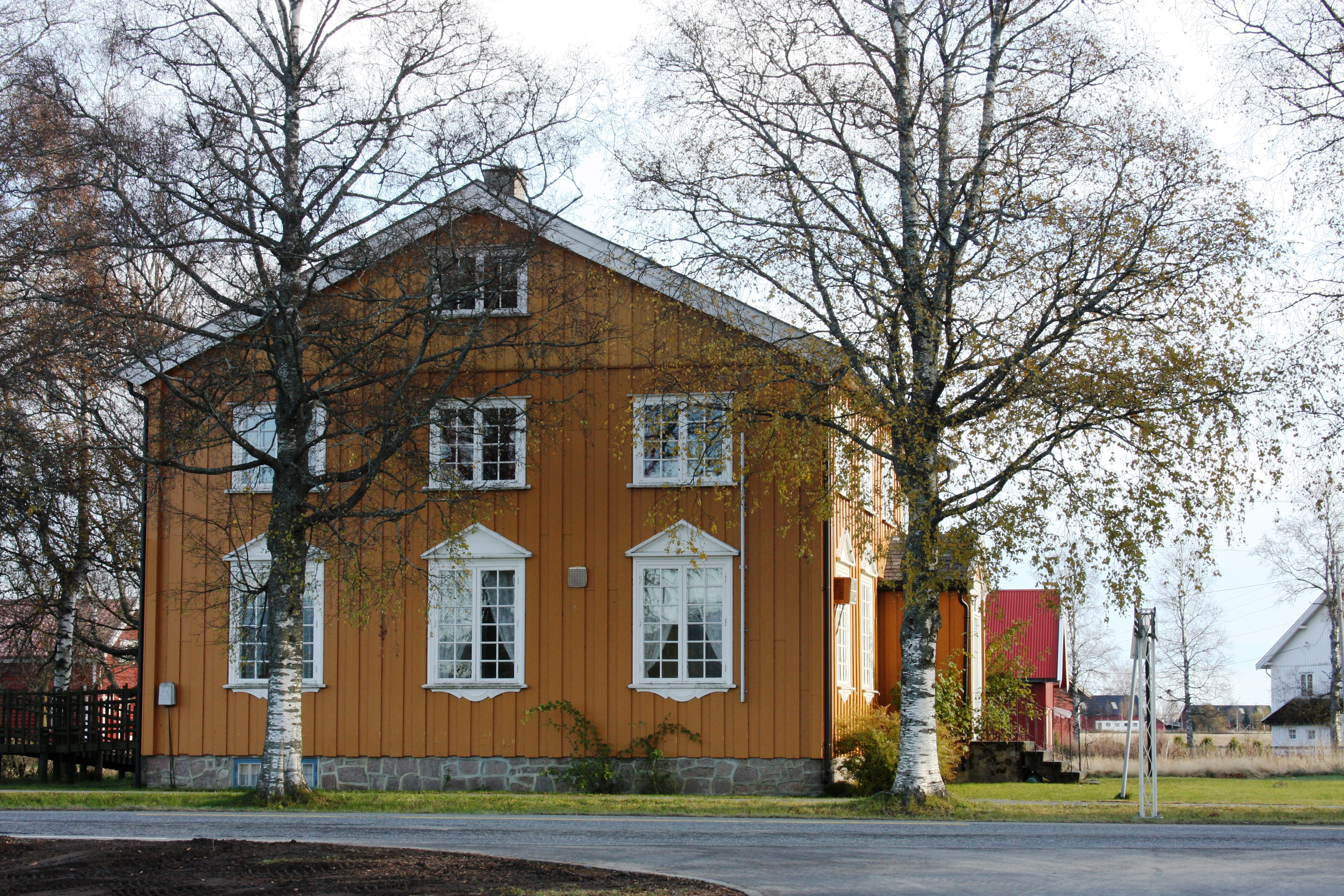 Image of Nannastad parish manor, Akershus county - Norway